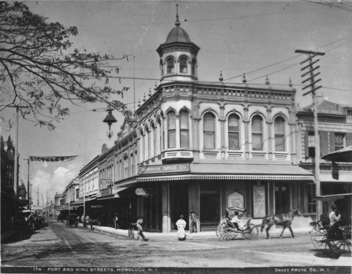 Fort and King Streets, Honolulu, H. I. Hobron Drug Co. on the corner and "Bicycle" banner over Fort Street.